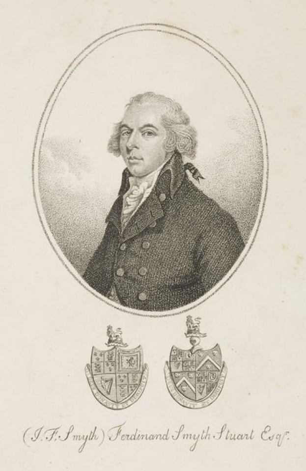 Stipple engraving of John Ferdinand Smyth Stuart